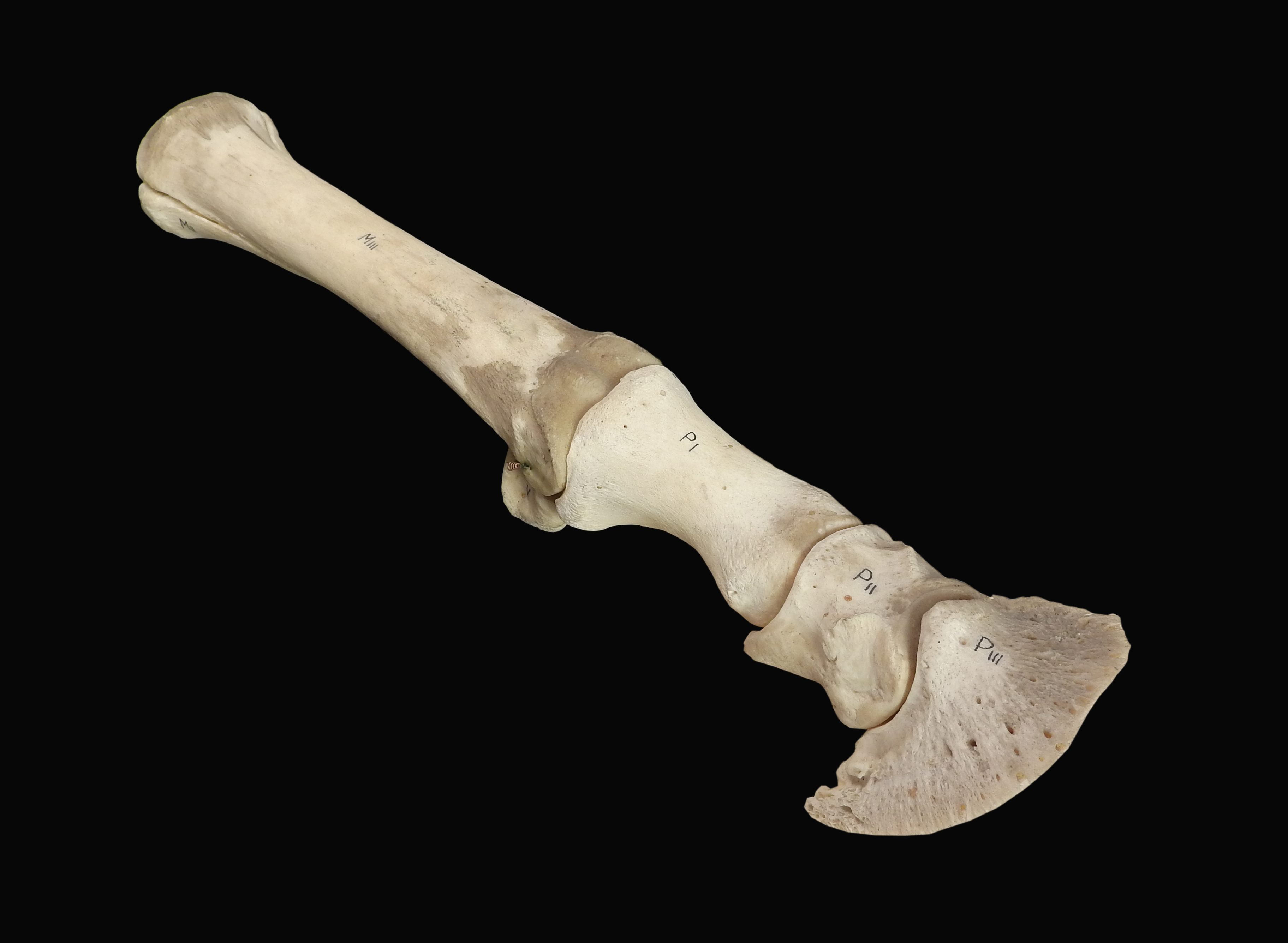 This item is a part of zoological collections of the Department of Biology and Environmental Studies of the Faculty of Education of Charles University.